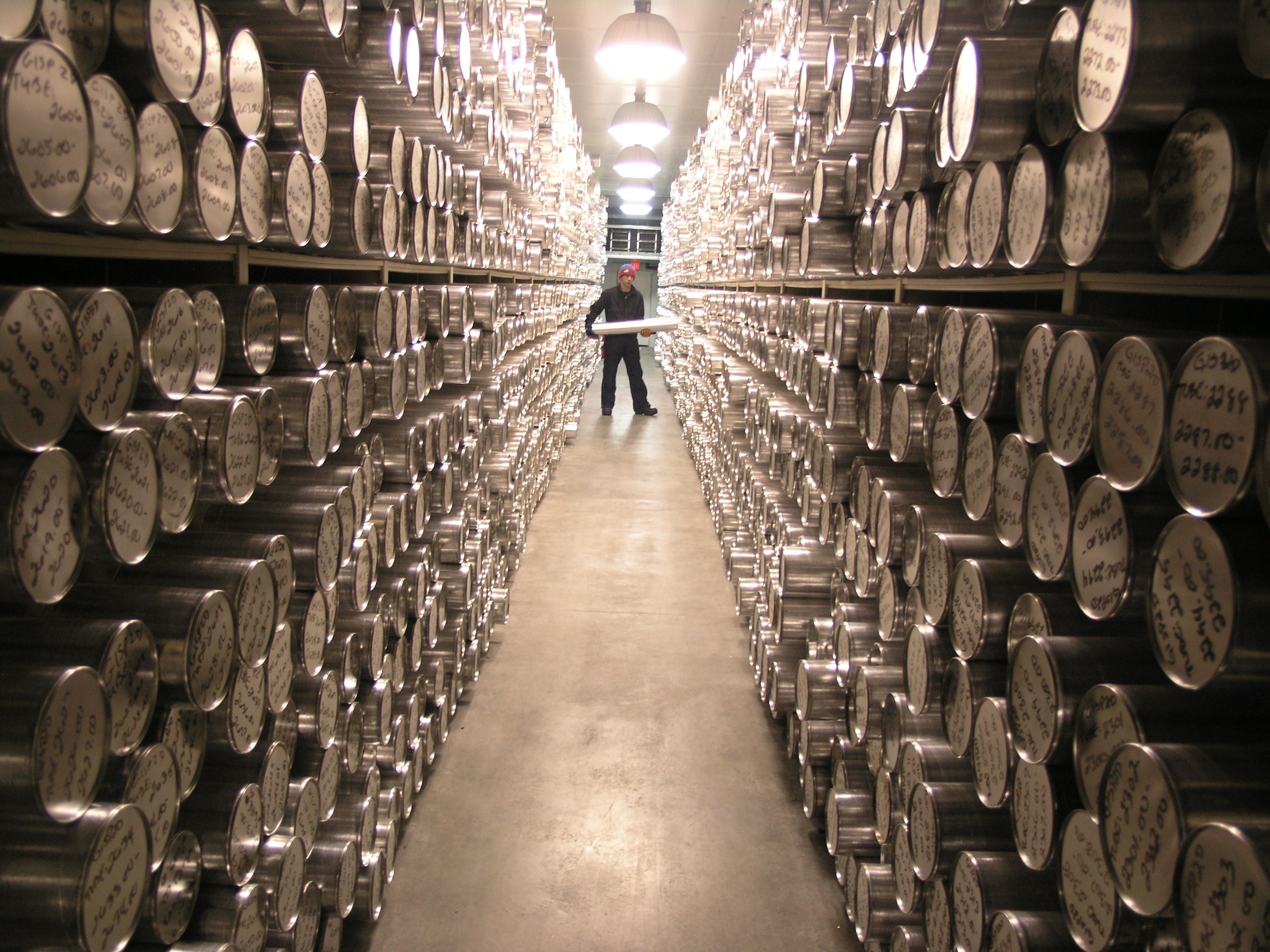 The original description was: Inside of the ice core storage area at the National Ice Core Laboratory. The typical tube contains a one meter section of ice core.